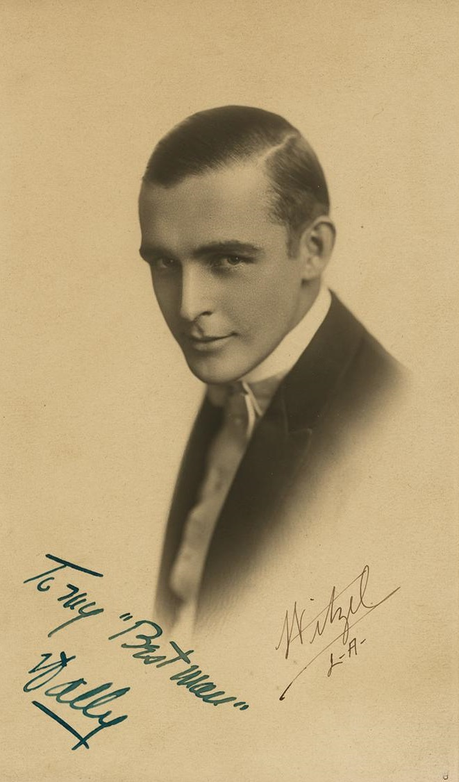 Autographed portrait of American actor Wallace Reid (1891–1923) by American photographer Albert Witzel (1879–1929).